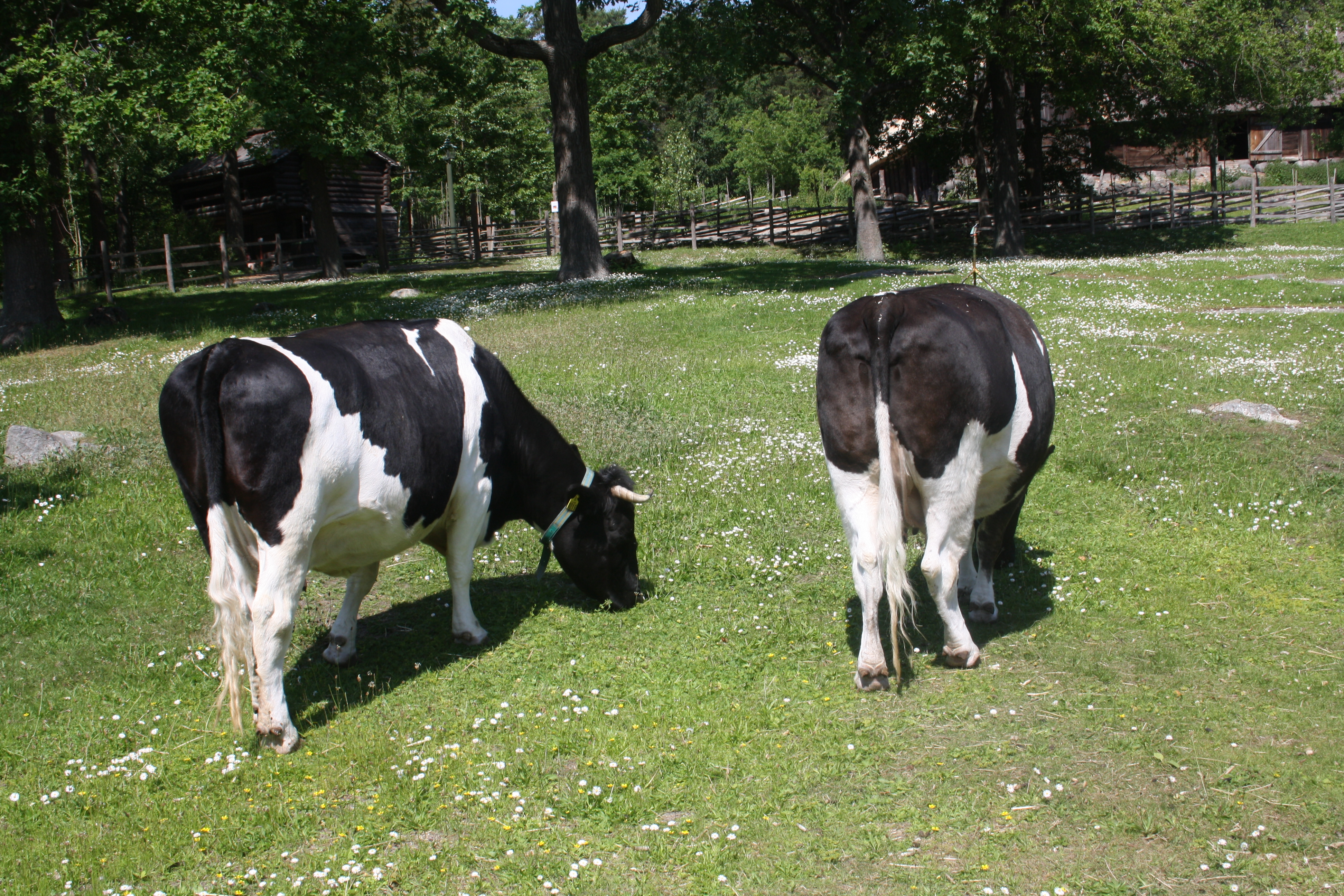 Skansen in Stockholm, Sweden at National Day of Sweden.